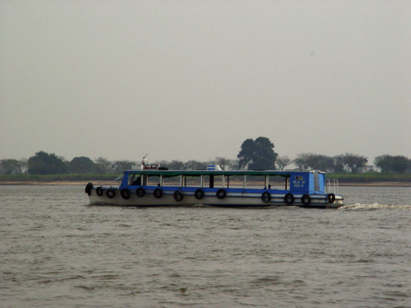 Rio Paraguay